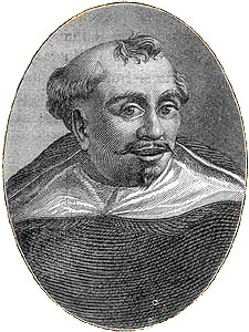 Portrait of Matteo Bandello (c1485–c1561), printed in La prima [-quarta] parte de le Novelle del Bandello ed. Gaetano Poggiali, Londra 1791, T. 1